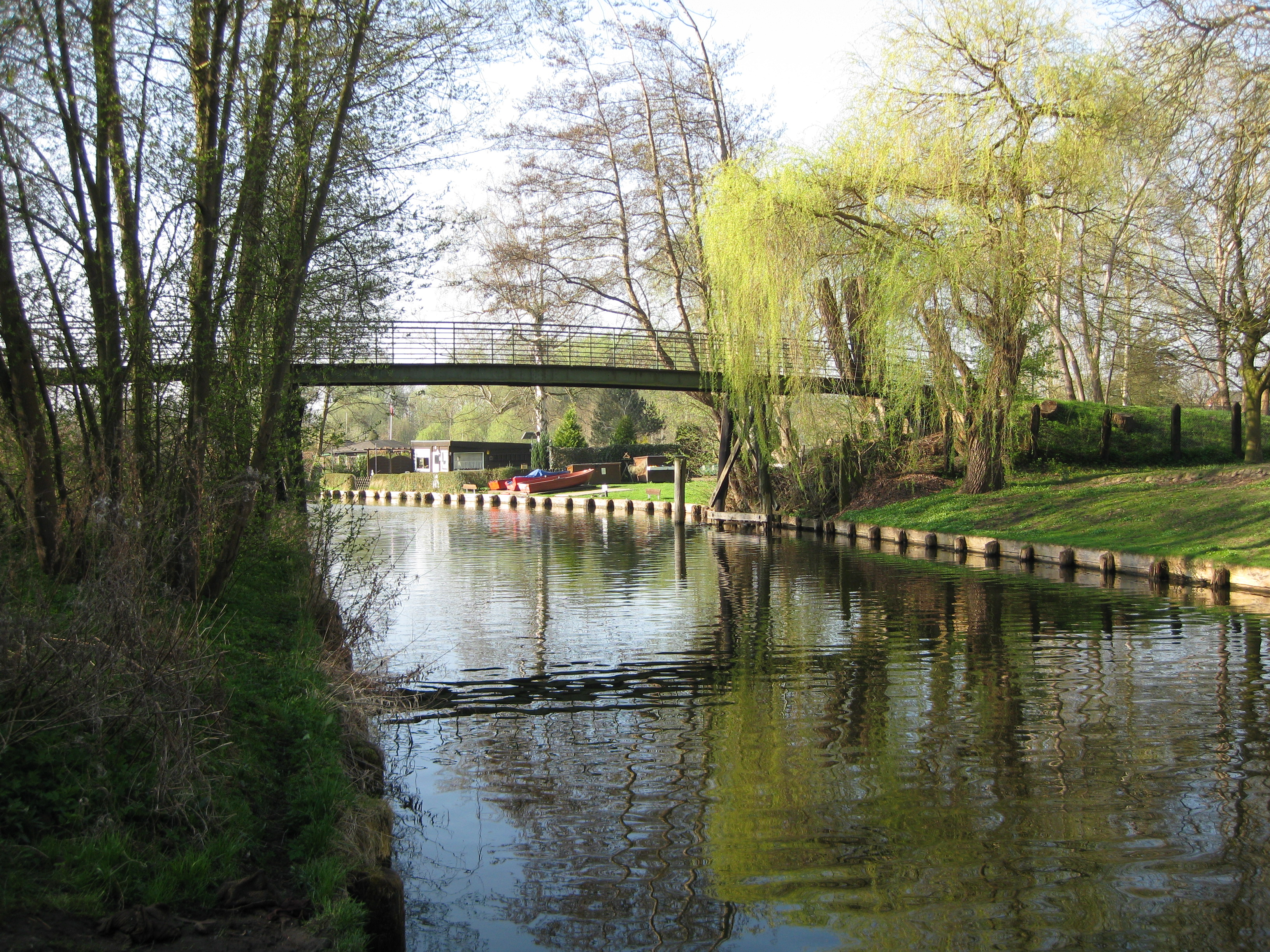 Pedestrian bridge over Wakenitz close to the railroad bridge.